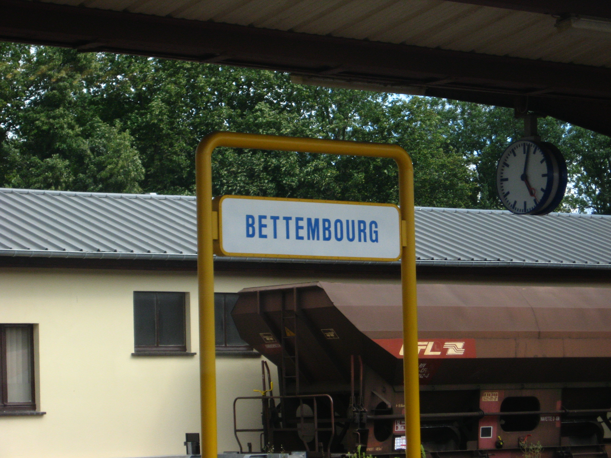 Sign at Bettembourg station, Luxembourg